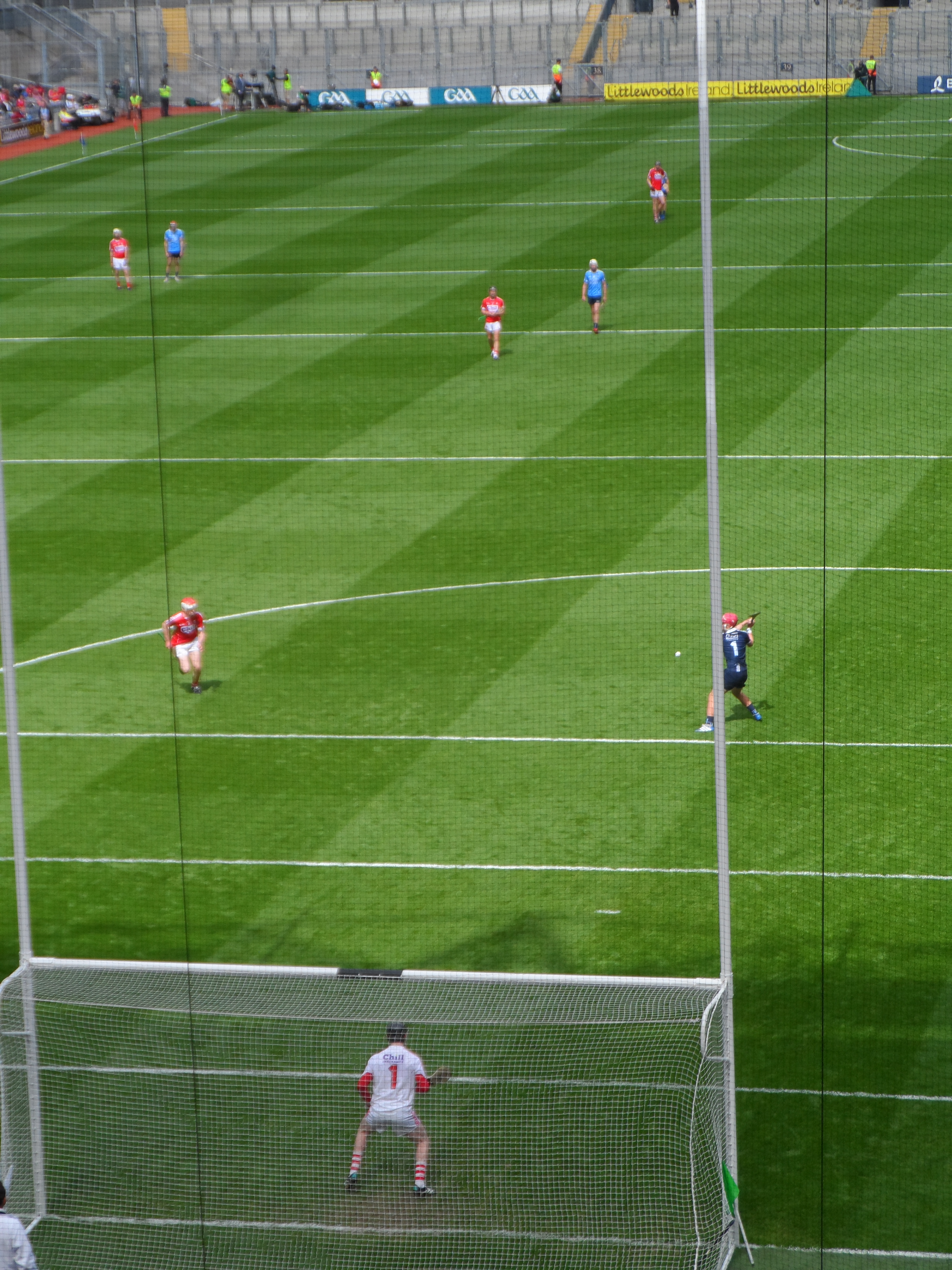 Penalty puck, hurling game